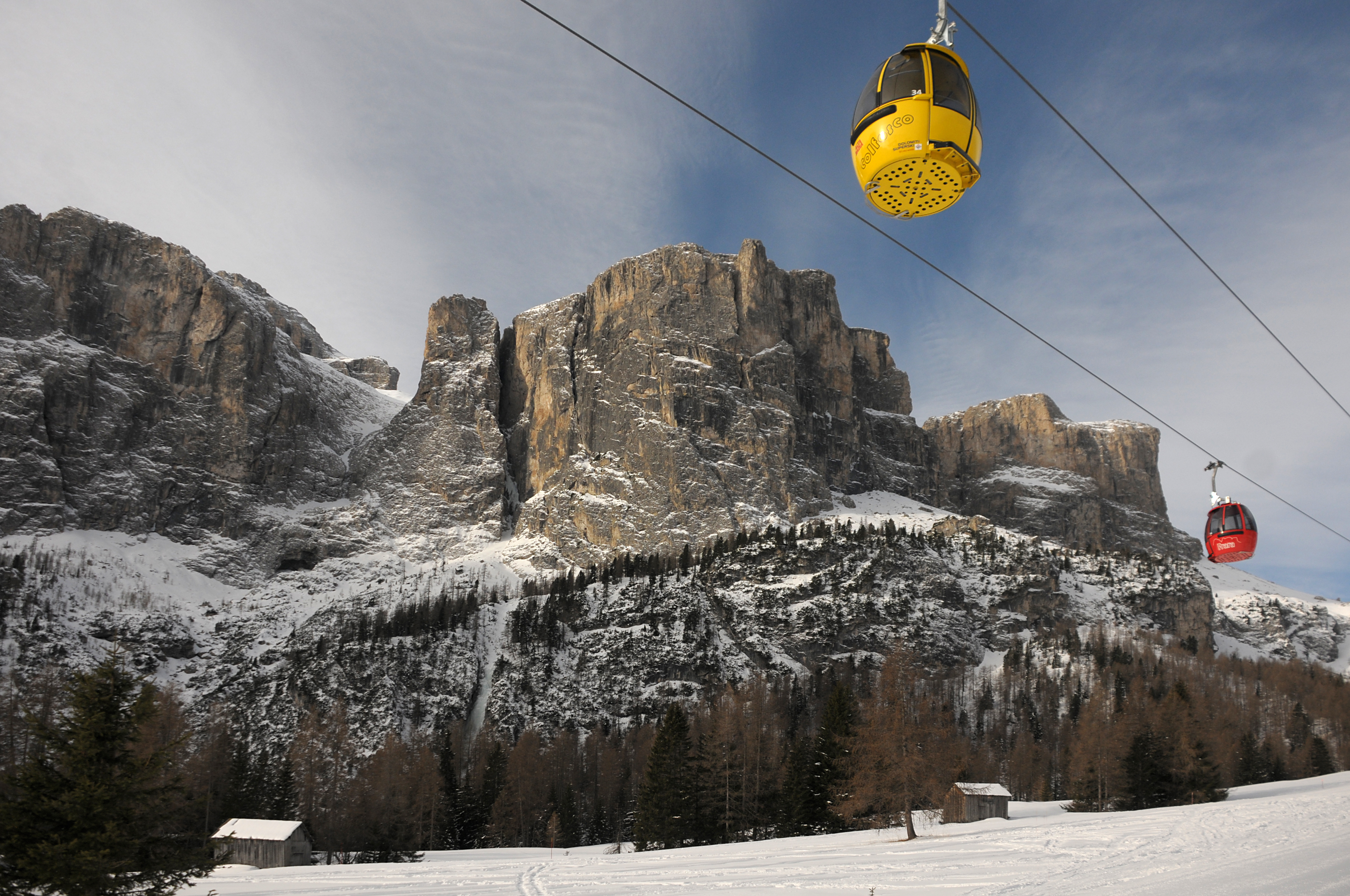 Gondola lift in the Sella Ronda in the Dolomites, South Tyrol. Towards Gardena Pass